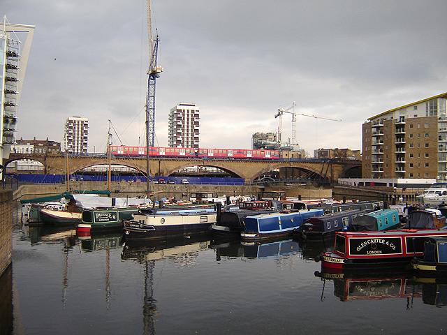 Limehouse Basin, Tower Hamlets, London. 6 January 2006. Photographer: Fin Fahey